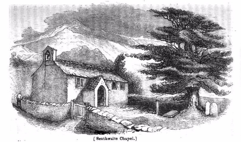 Woodcut of the old chapel at Seathwaite in Borrowdale, then in Lancashire, England. From Rambles by Rivers: The Duddon, etc. by James Thorne (1844).